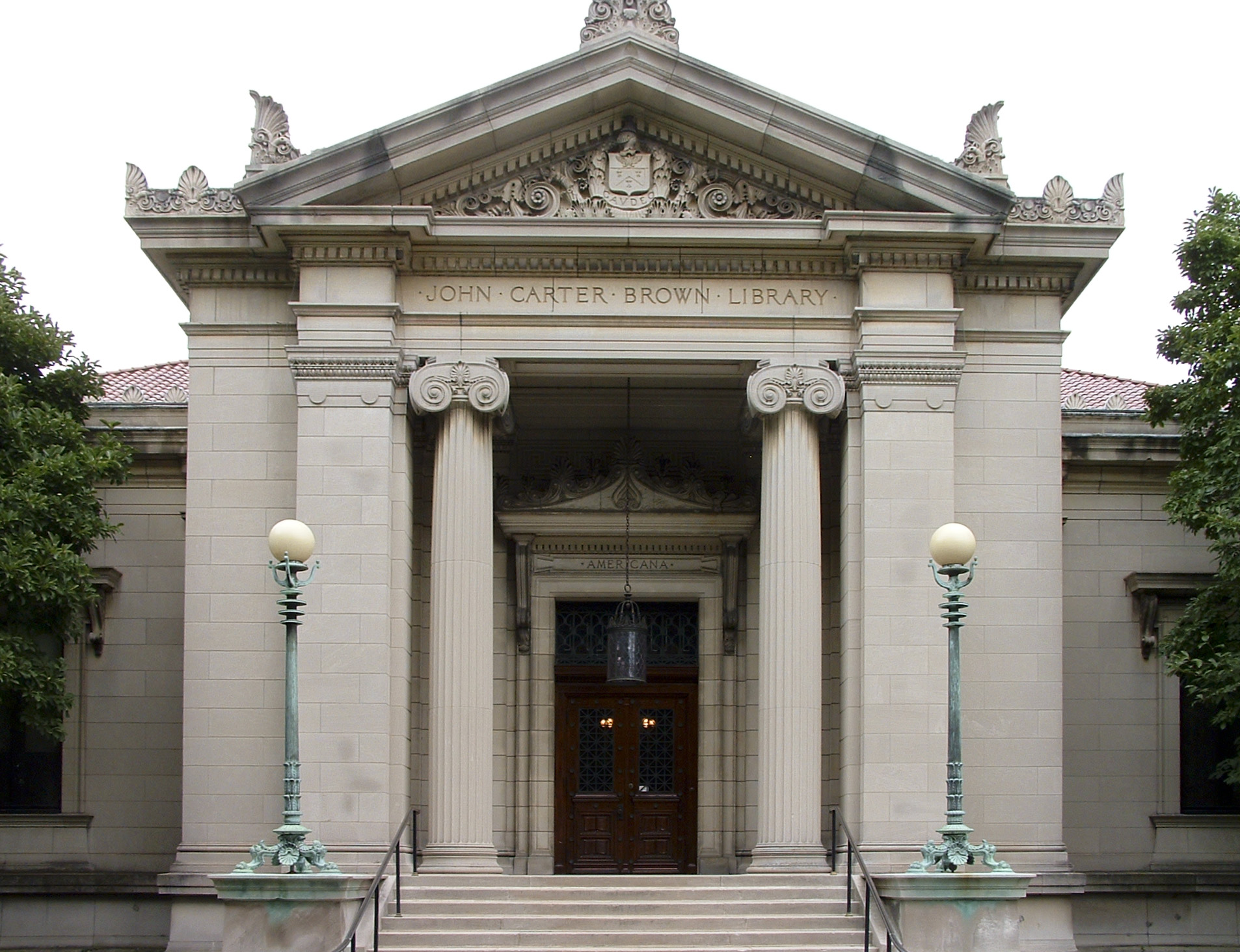 Brown University - John Carter Brown Library